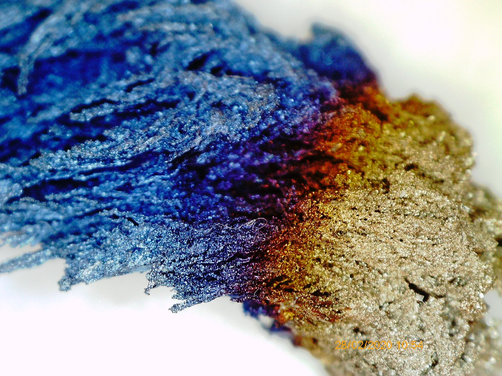 In this photo you can see anodized titanium.